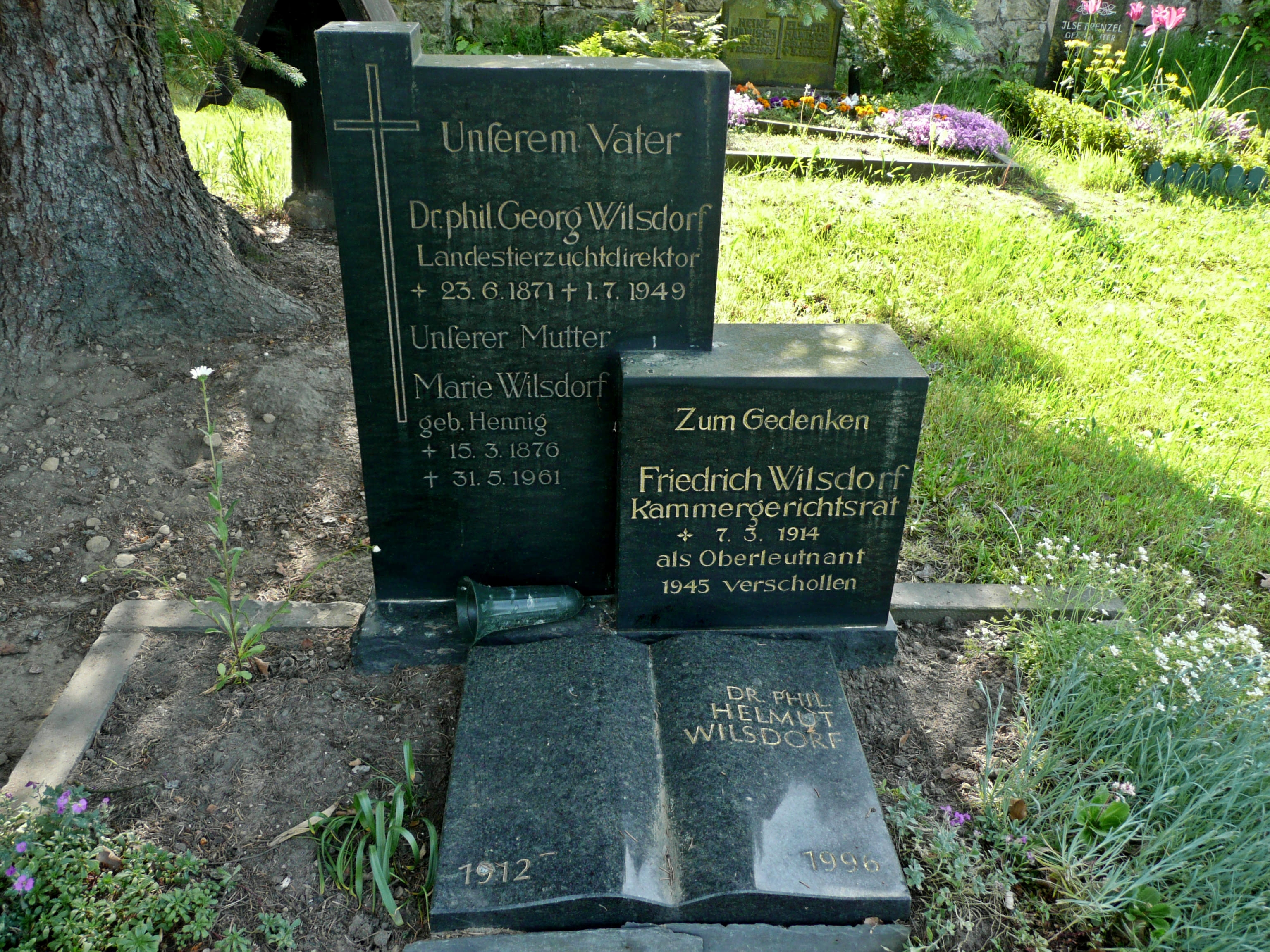 Wilsdorf family tombstone at Papstdorf cemetary.